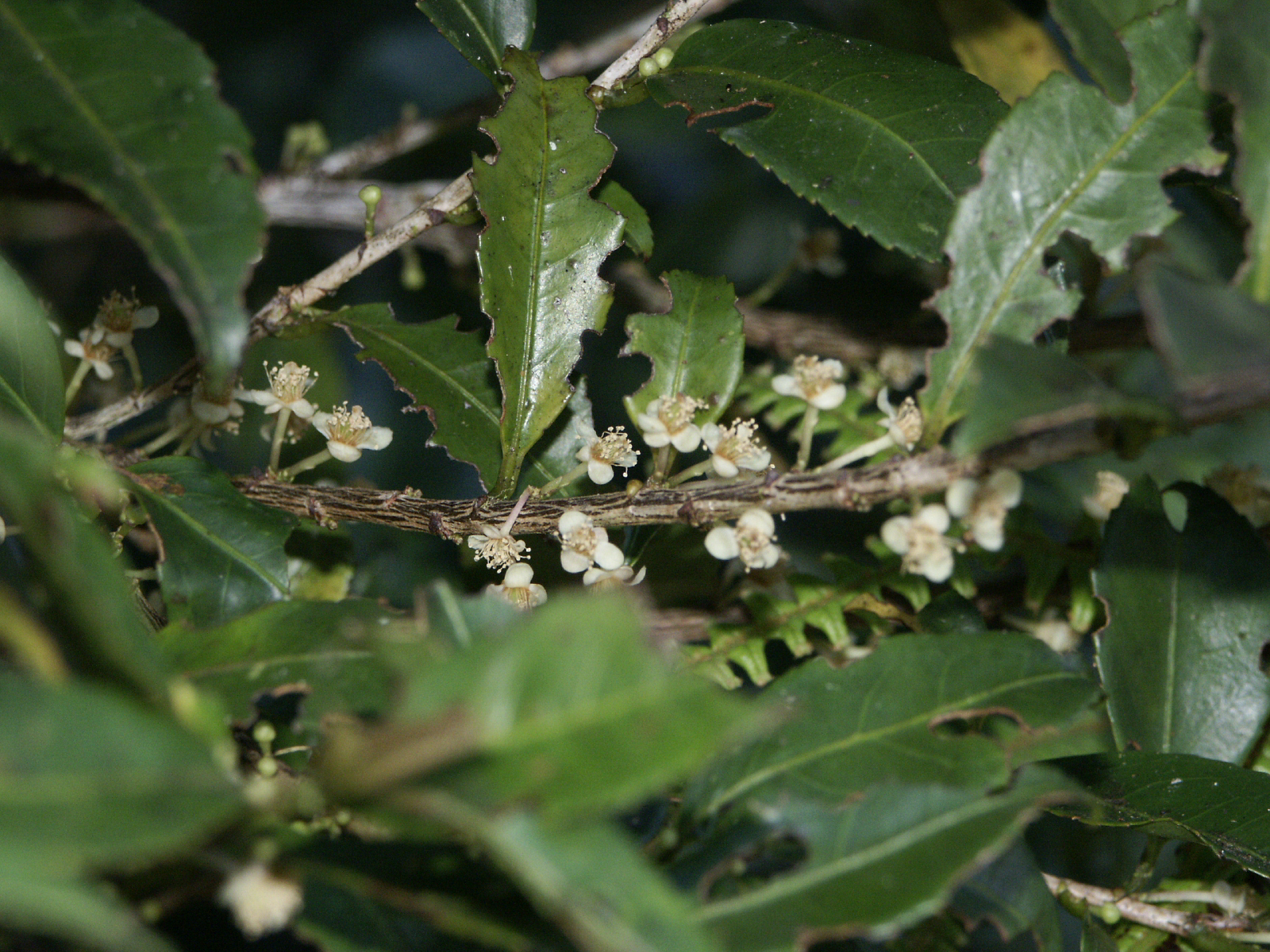 Mantady Reserve, Madagascar. Oct 2003. This monotypic family is a member of the Crossosomatales.